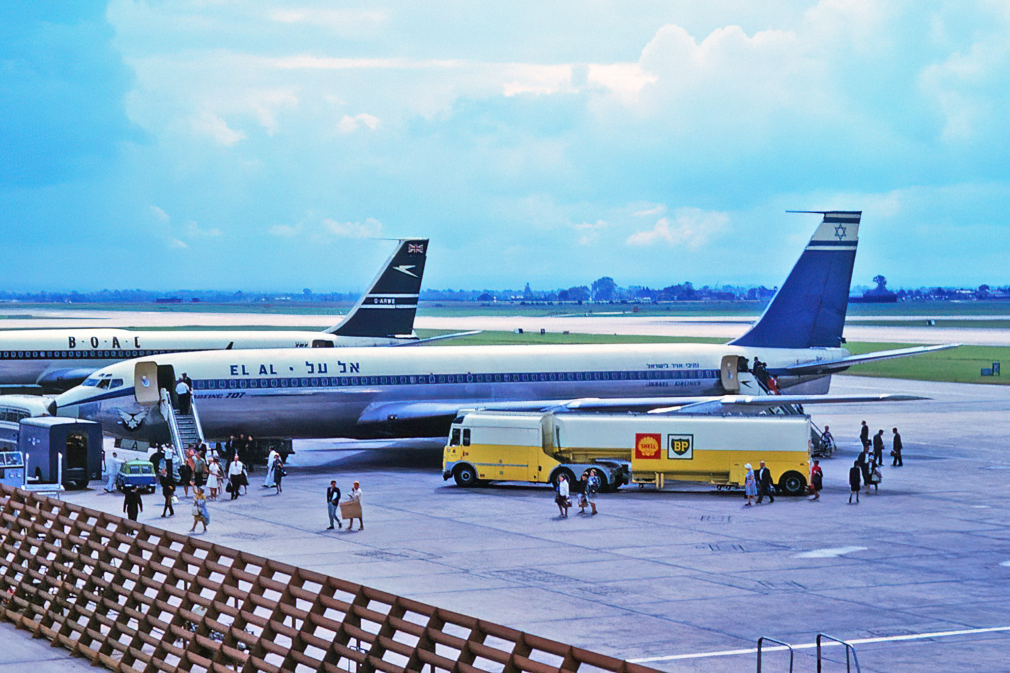 Two 707-420s with Conway engines.